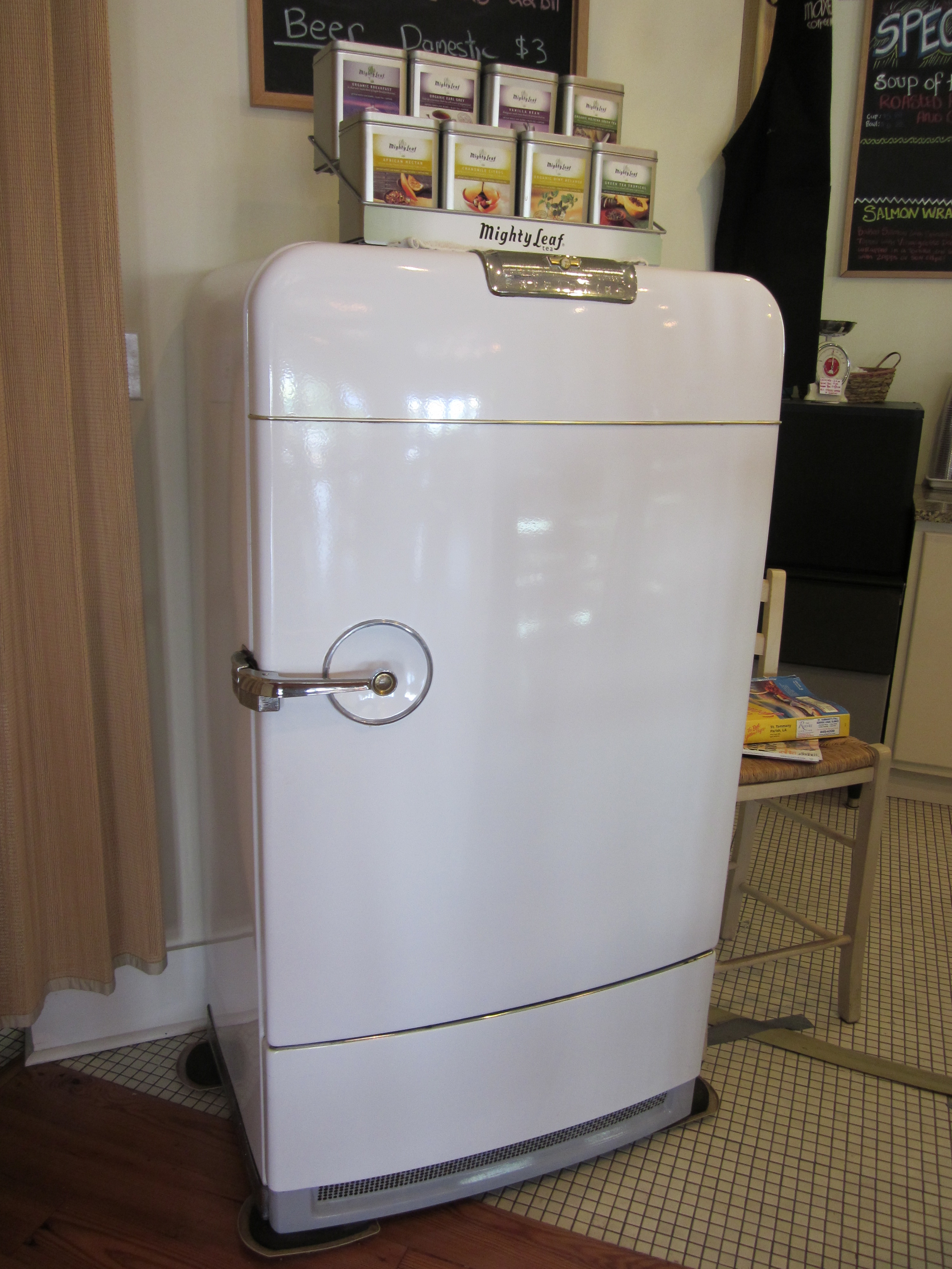 Restaurant, Mandeville, Louisiana. Old refrigerator.